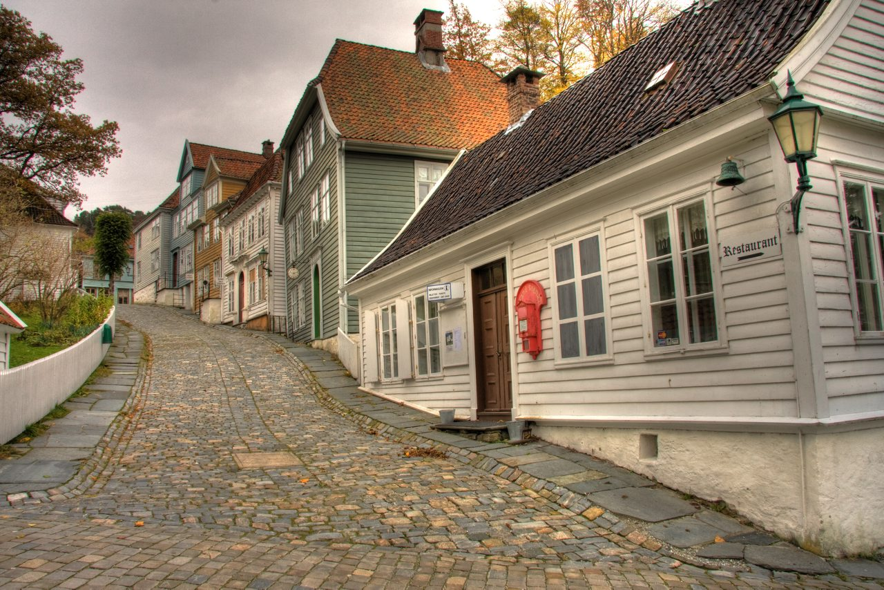 Gamle Bergen, Hordaland, Norway